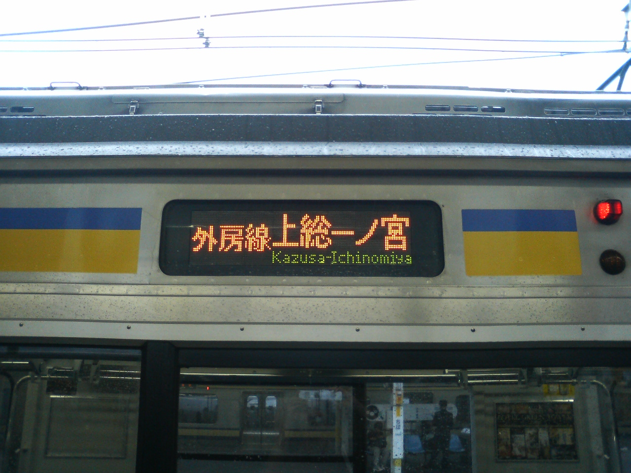 A LED-Side of JR East 209-2100 series.